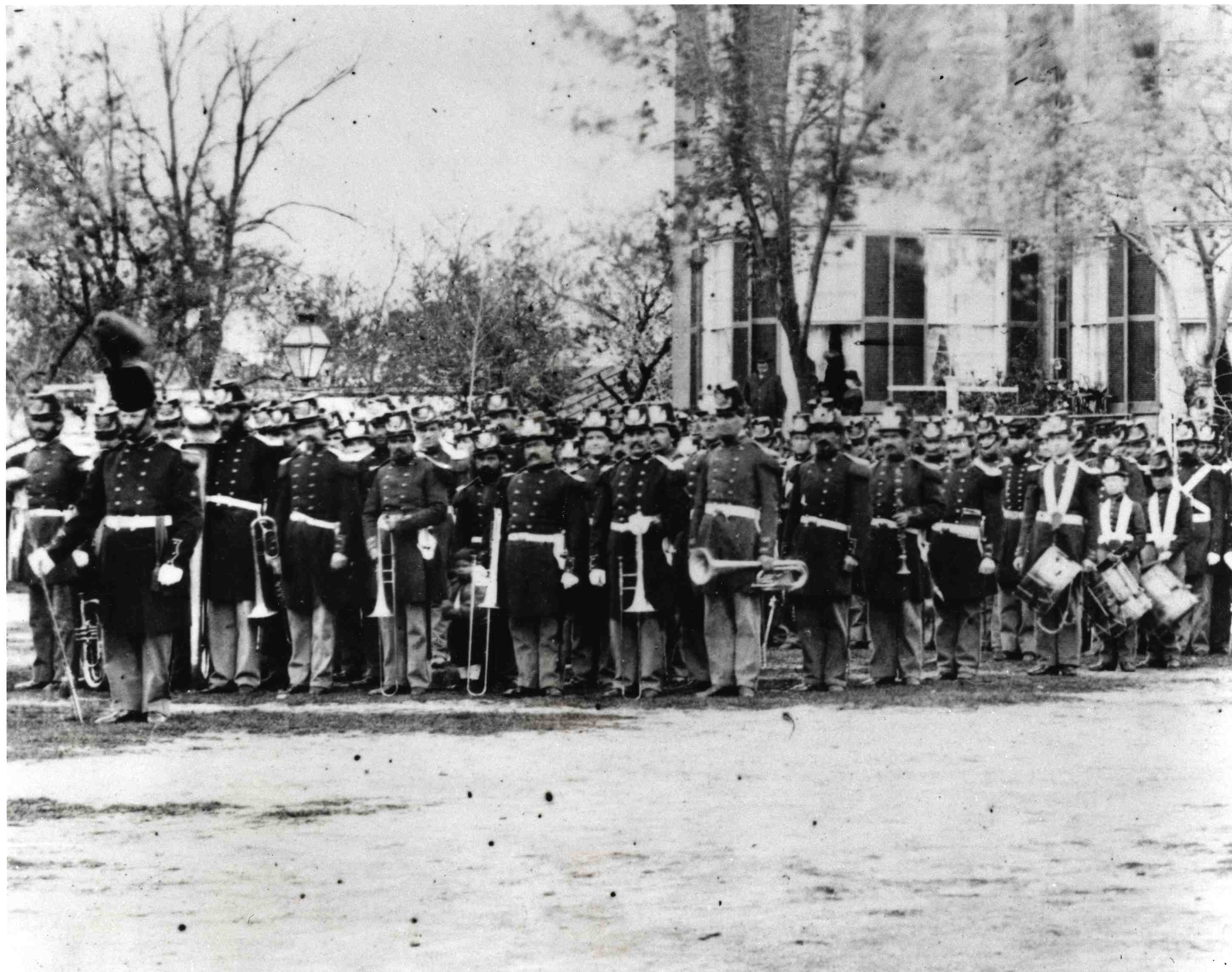 The "President's Own" Marine Corps band - first known photograph, 1864; from official United States Marine Corps site at